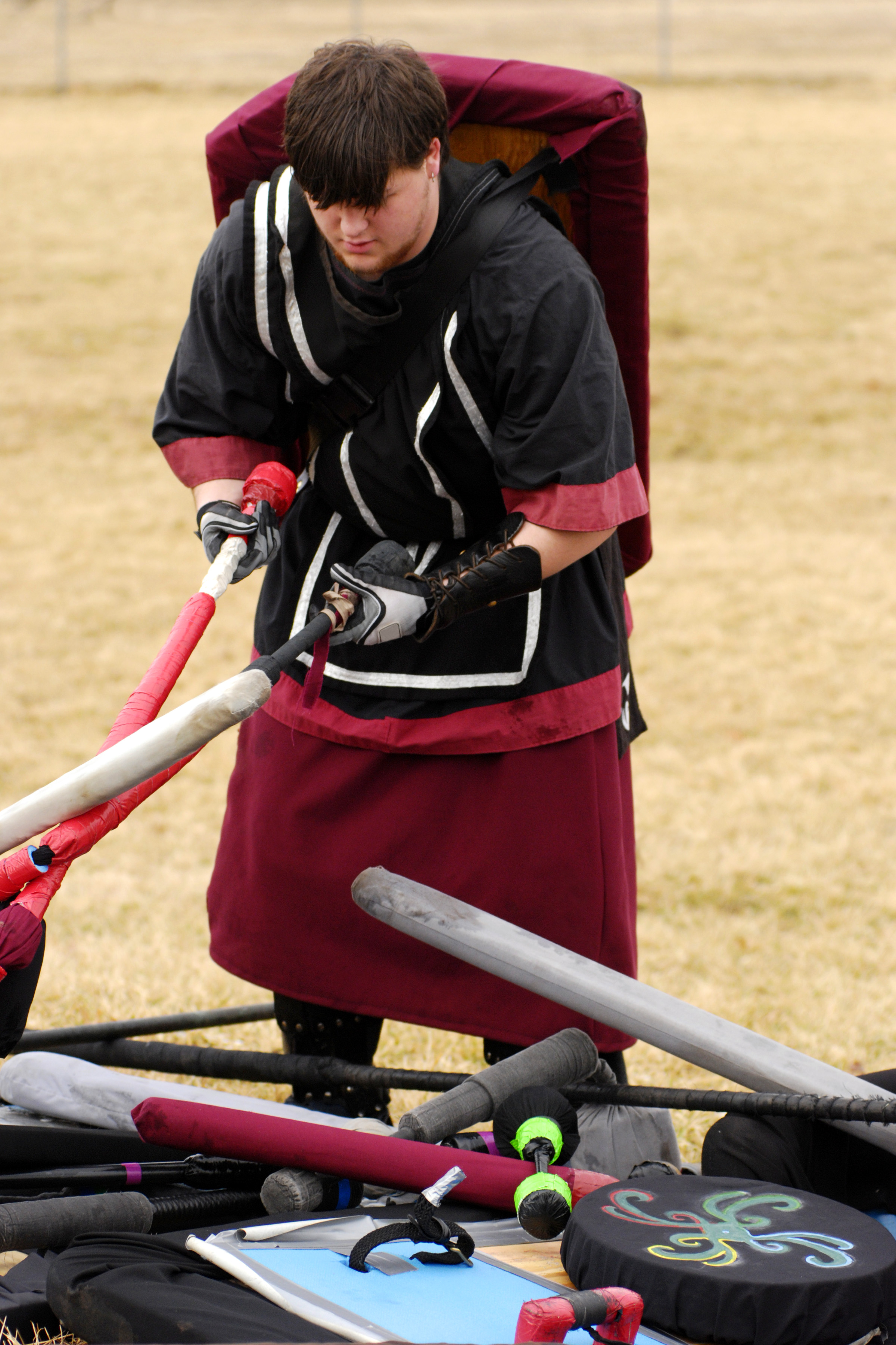 A member of Dagorhir inspects foam weapons and shields before for safety.